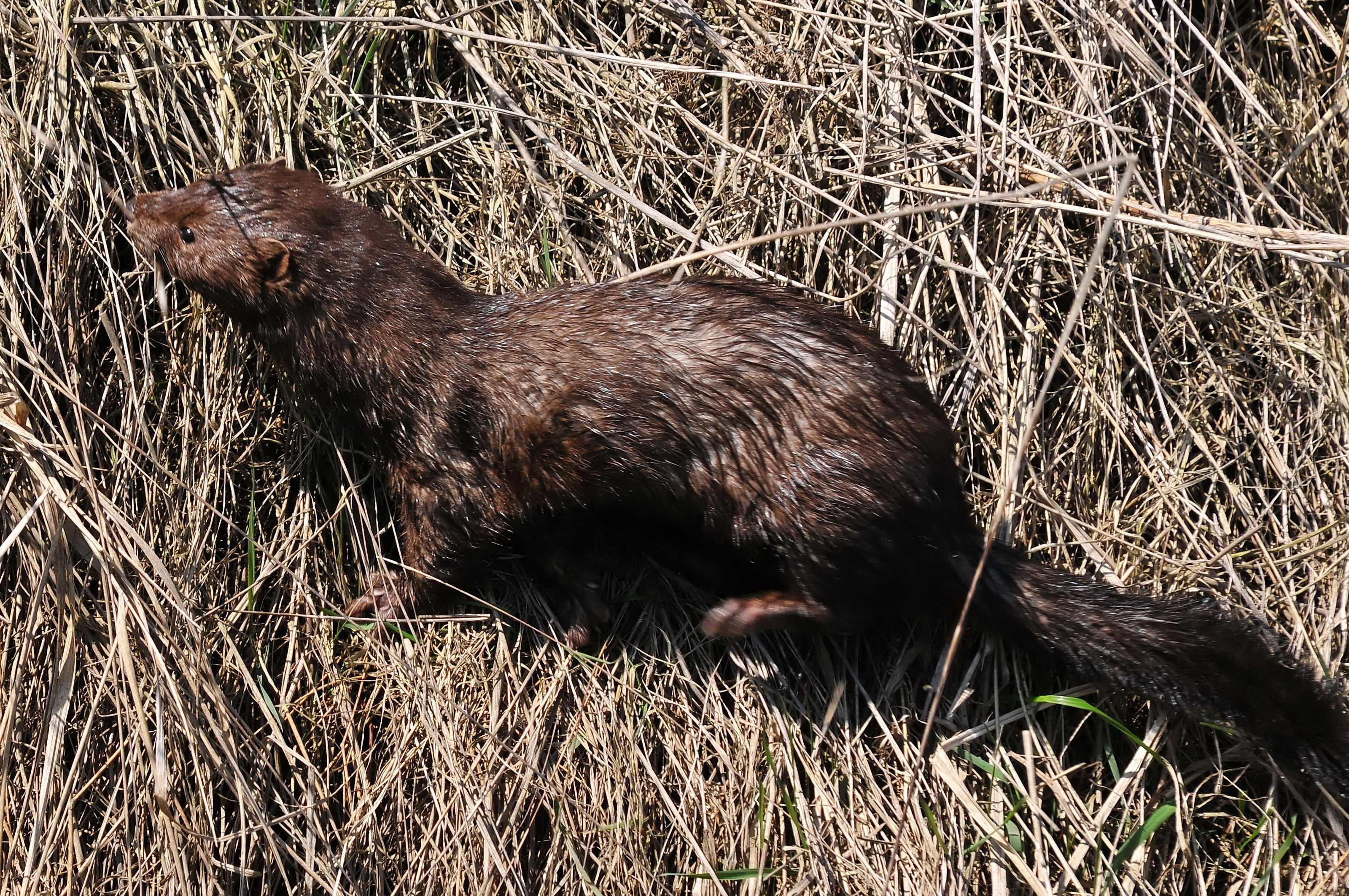 Best Viewed Large. Came across this little one quite by surprise, he even sat and posed for a few shots. This is the first time I've seen one in our local area.Delta BC